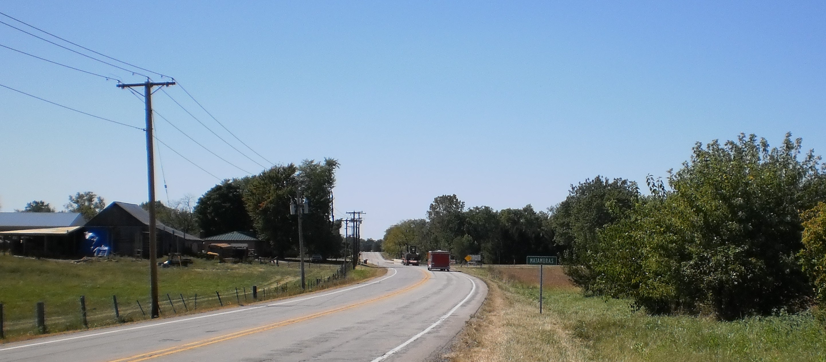 Entrance to small Blackford County village of Matamoras Indiana